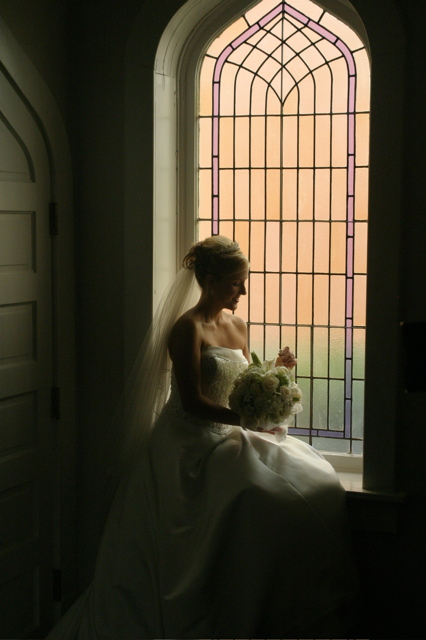 Object: Bride in formal dress North America at church window. Source: self Photographer: Nils Fretwurst Date: 2005